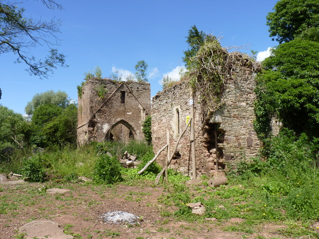 The ruins of St Mary's parish church, Avenbury, Herefordshire, seen from the southeast. Centre left is the 13th-century west tower. On the right is the chancel.